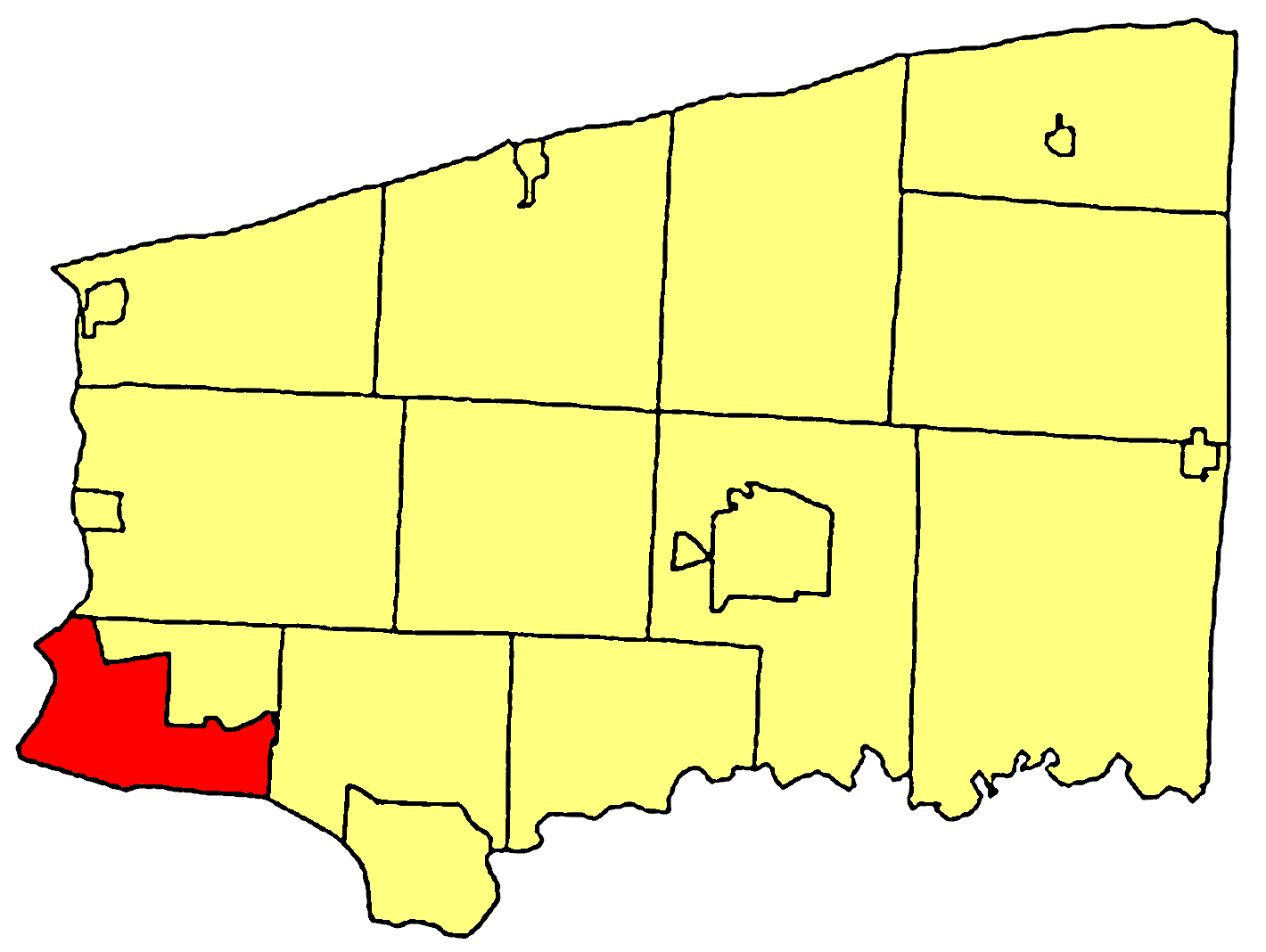 Location map of Niagara Falls (community) in the state of New York.